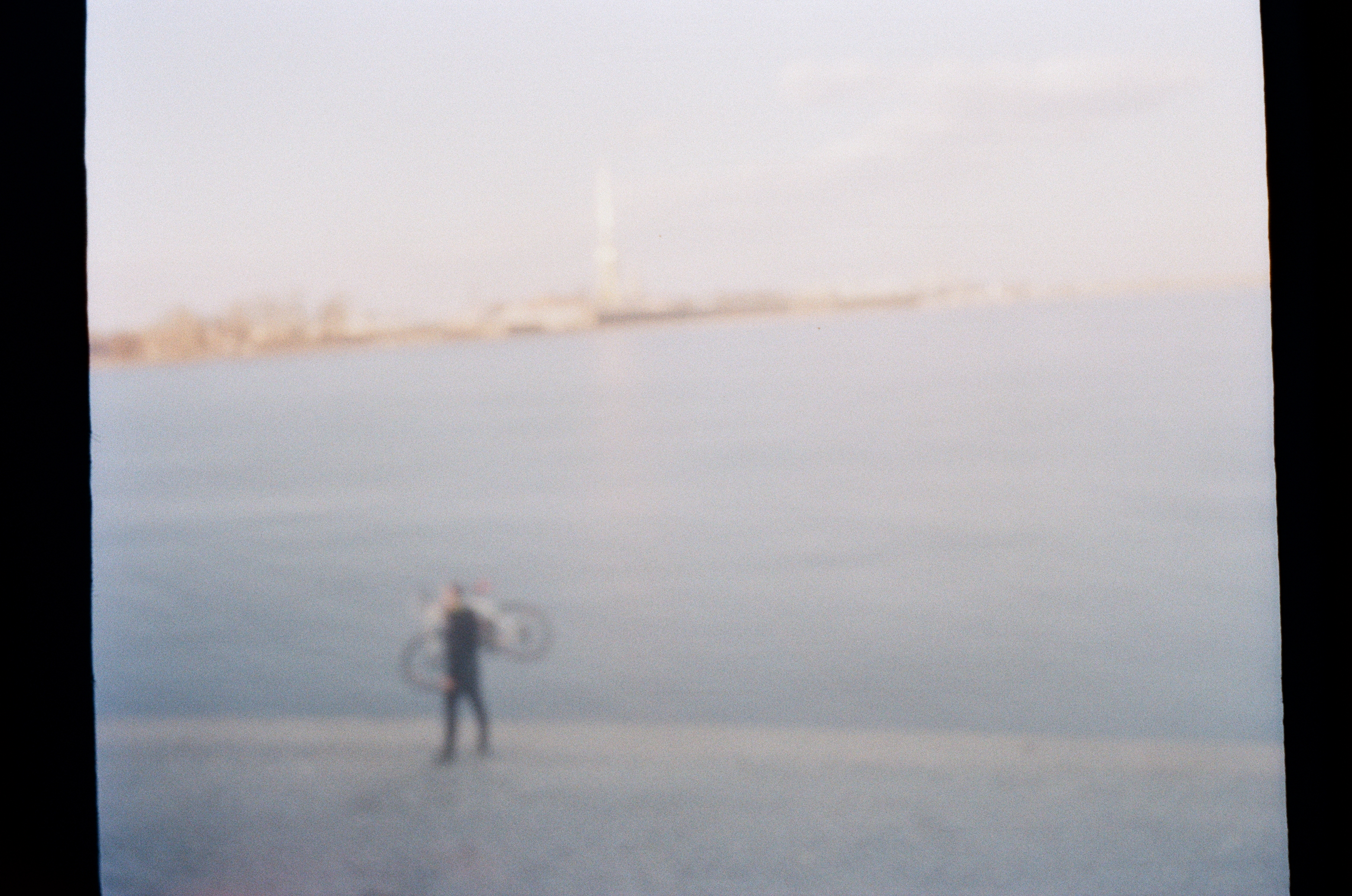 Neva Embankment, Saint Petersburg. Spring 2019. The picture was taken using pinhole technology.